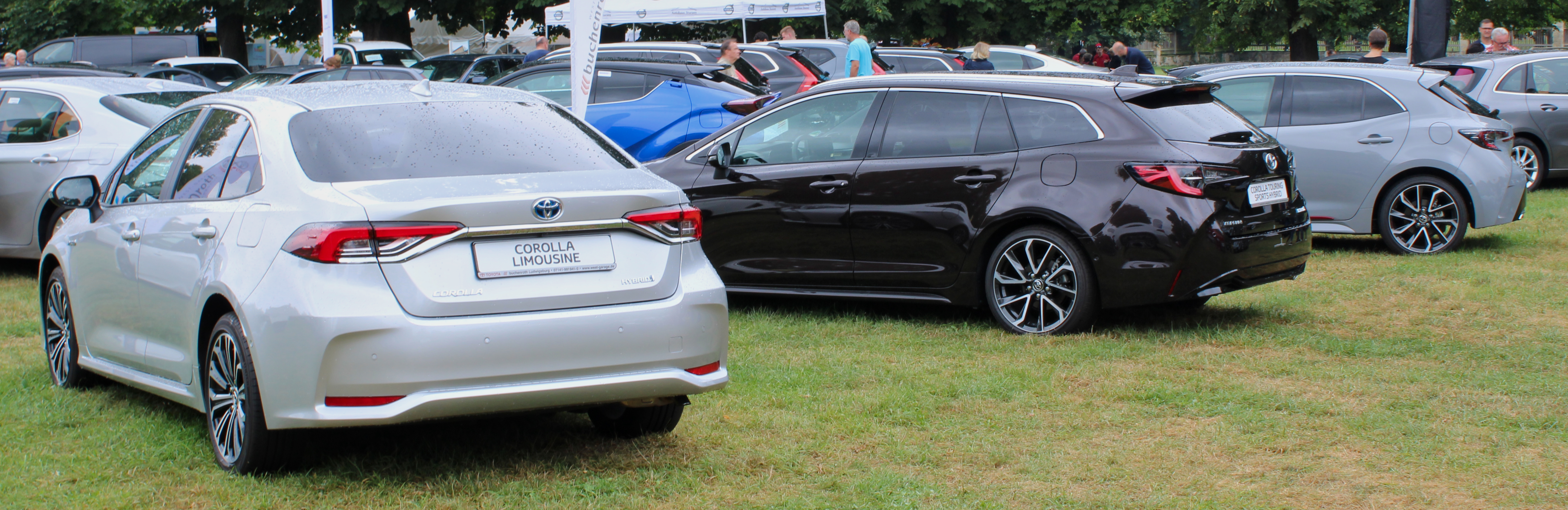 Toyota Corolla at Schloss Monrepos 2019